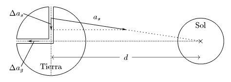 Computing acceleration generating tides. 2007